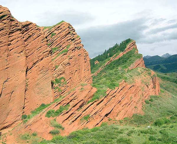 Seven Bulls rocks near Jeti Oguz village (Issyk-Kul-District, Kyrgyzstan), own photograph